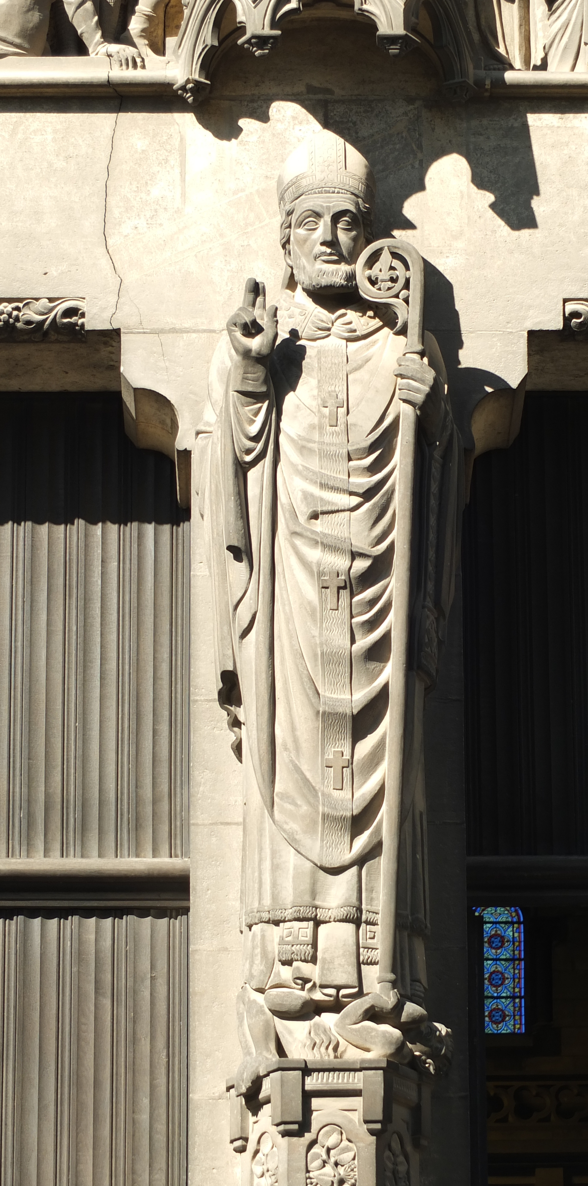 South portal of Lille Cathedral, the Basilica of Notre Dame de la Treille.